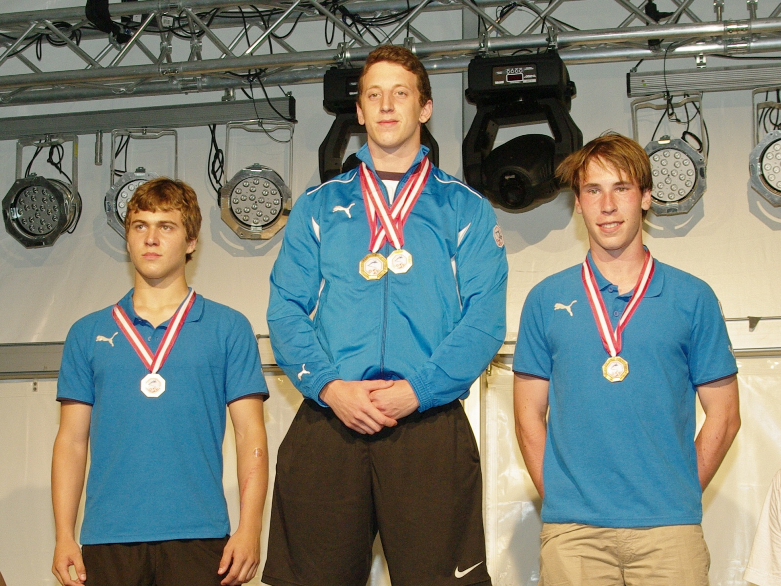 Austrian Grasski Championships 2010 in Rettenbach: Medal ceremony Juniors Giant Slalom: 1st place and Austrian Junior Champion: Daniel Gschwandtner (middle), 2nd place: Christoph Schranz (left), 3rd place: Andreas Guttmann (right)